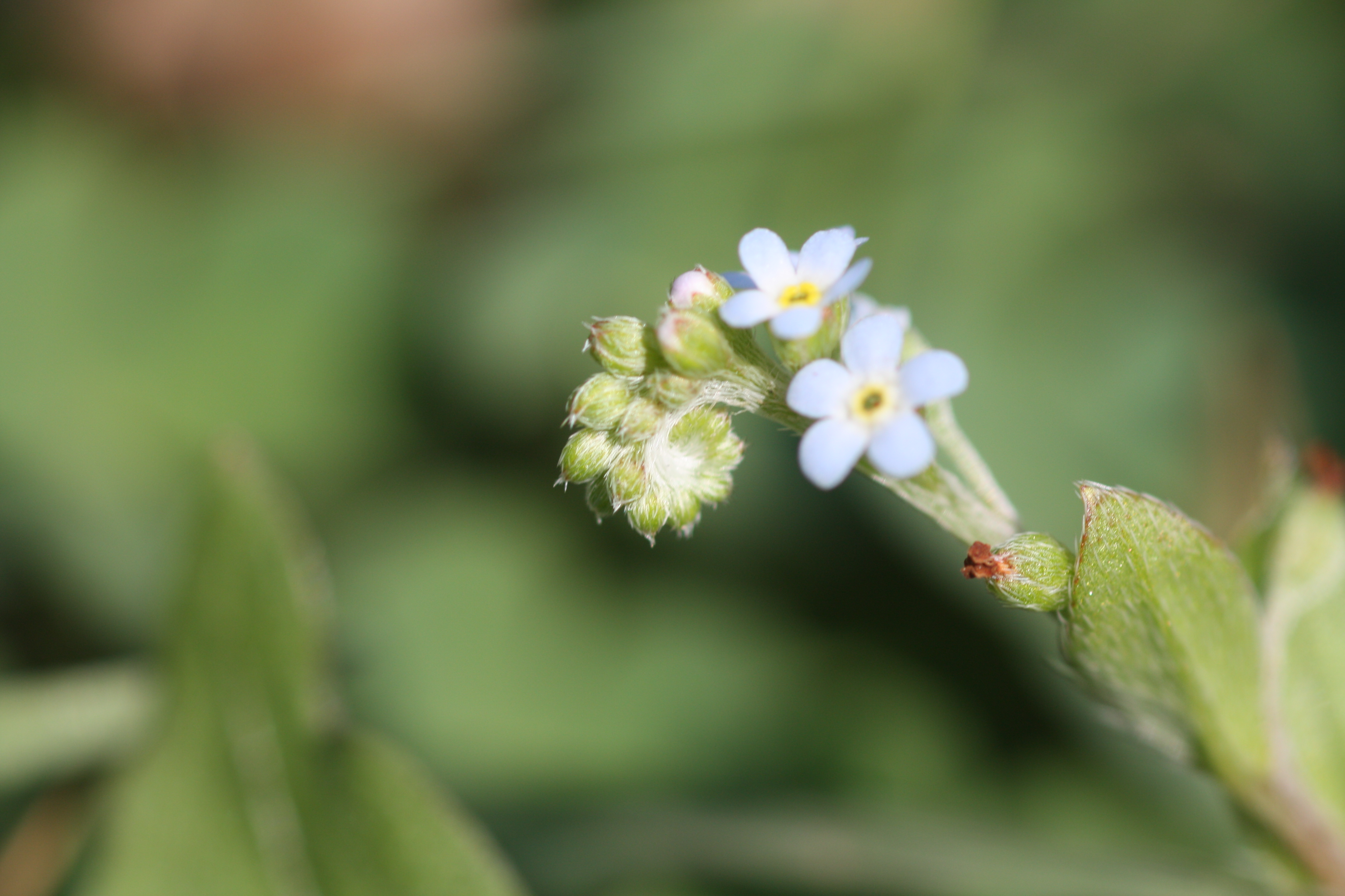 Trigonotis peduncularis